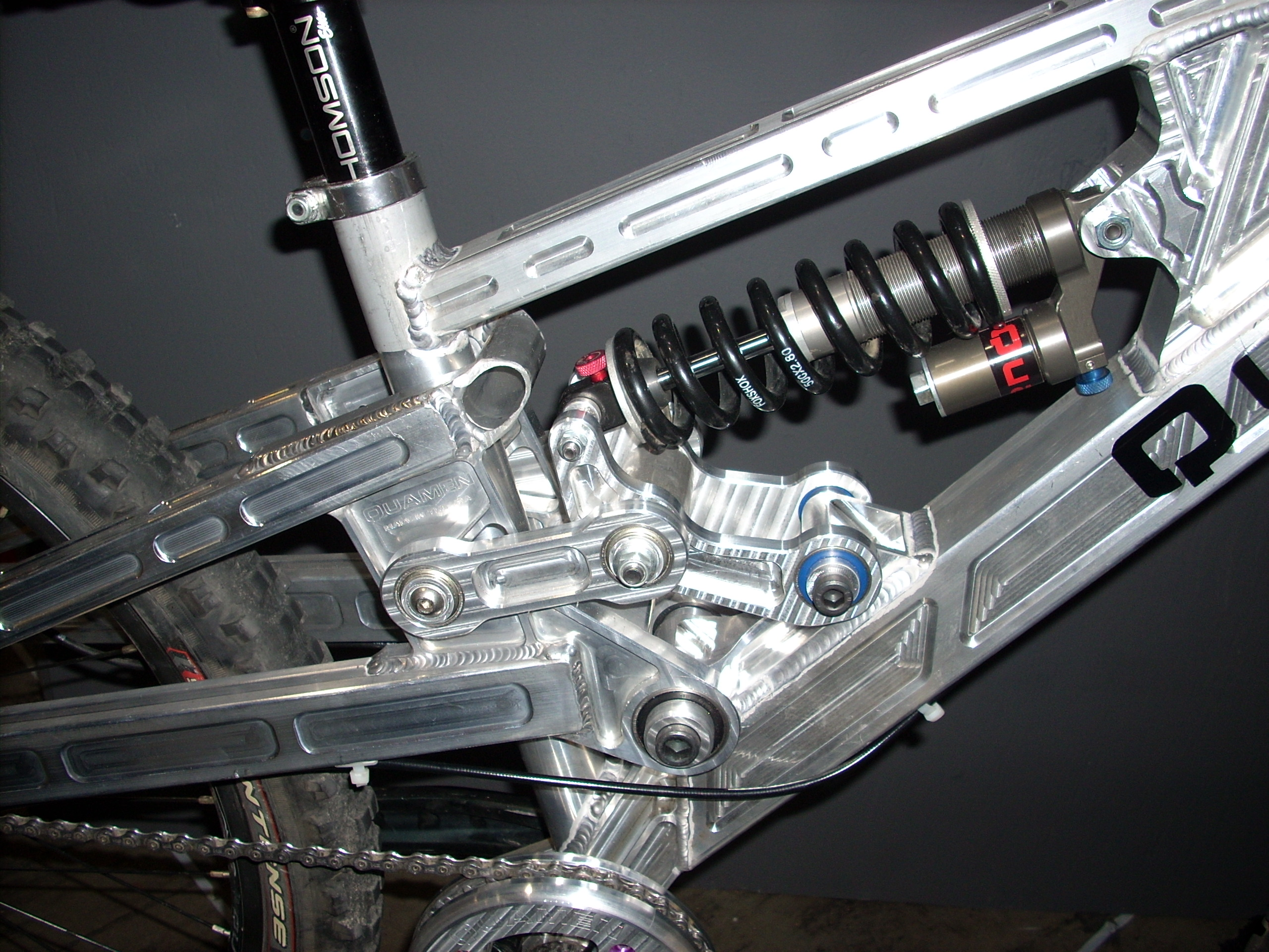 Mountainbike frame made of sections of CNC machined aluminium welded and bolted together.